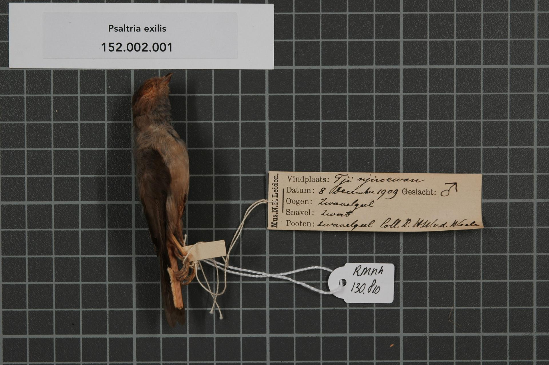 Psaltria exilis Temminck, 1836